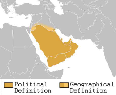 Two definitions of the Arabian Peninsula. The geographical borders of the region (as opposed to the political borders) are approximate. Inspired by Image:Central Asia borders.png for Central Asia.